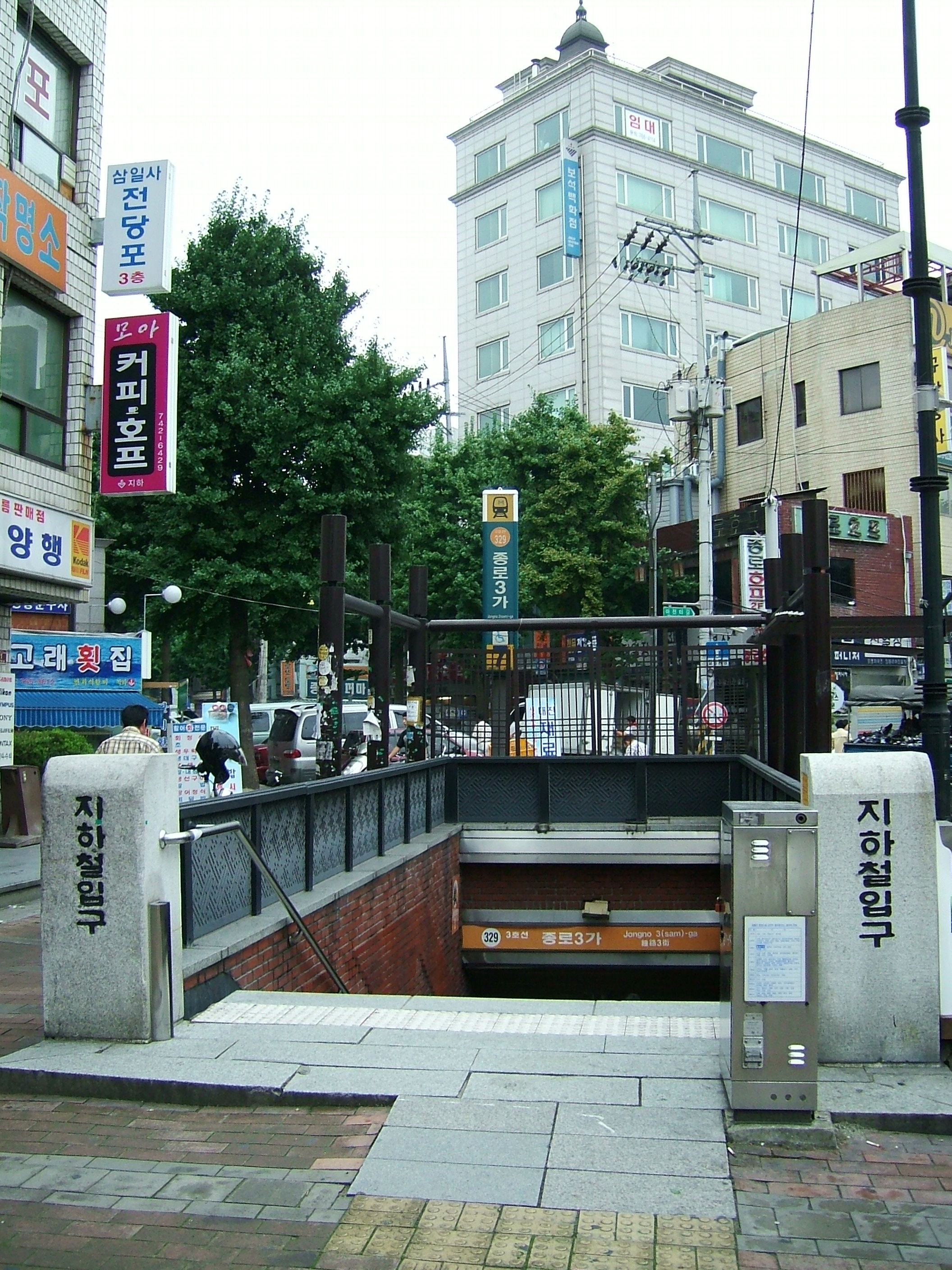 The entrance no.7 to Jongno 3-ga Station